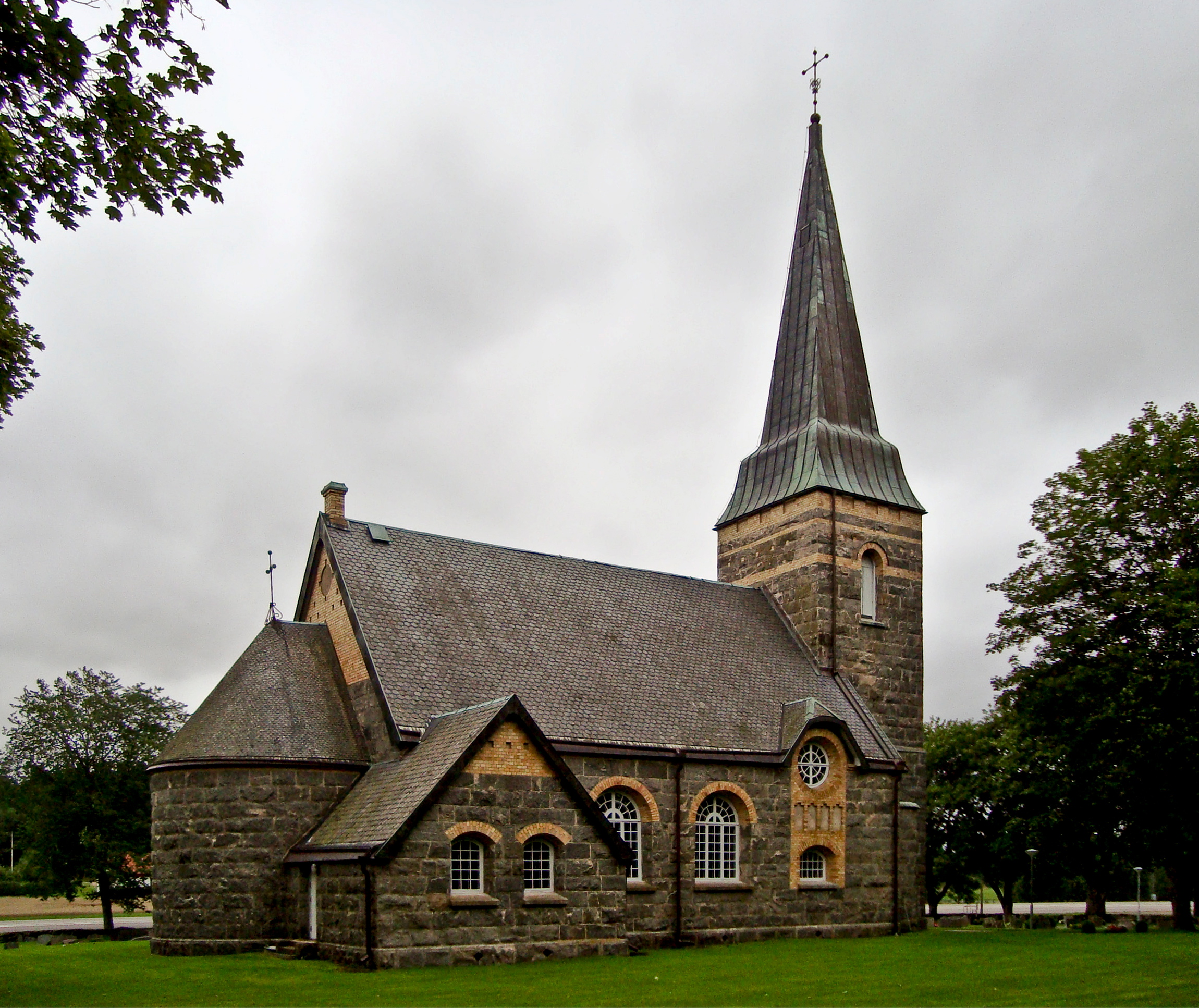 Church of Södra Härene, Vårgårda Municipality, Sweden.